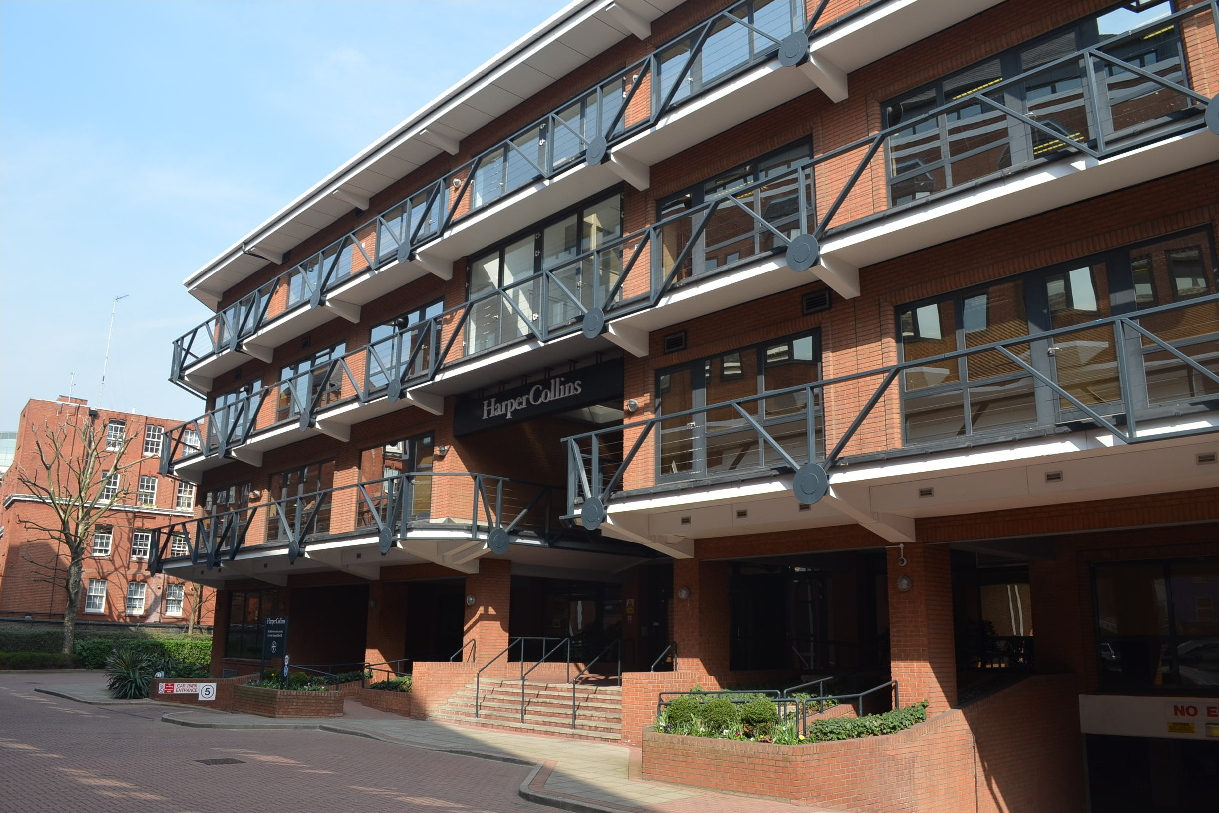 HarperCollins London HQ